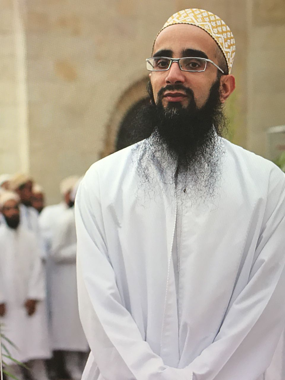 Shehzada Jafar us Sadiq Imaduddin at Al Jamea tus Saifiyah Karachi, Pakistan